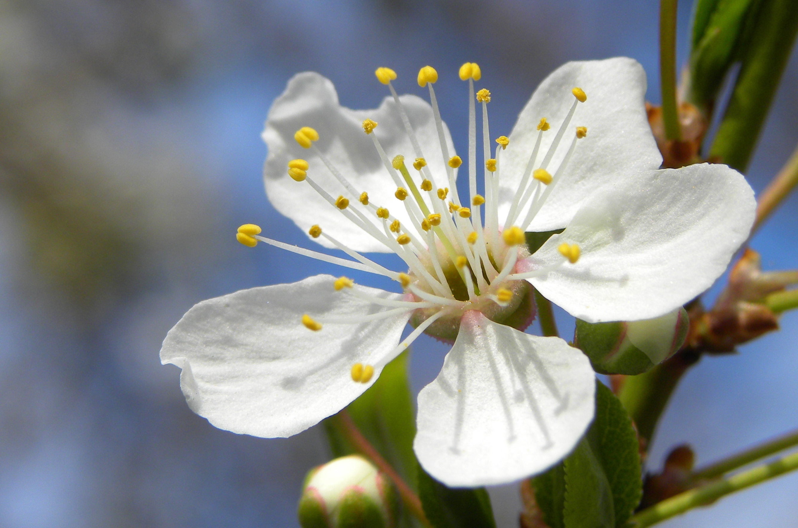 Mirabelle plum (Prunus cerasifera) – blossom. Taken in Slaný, Czech Republic.